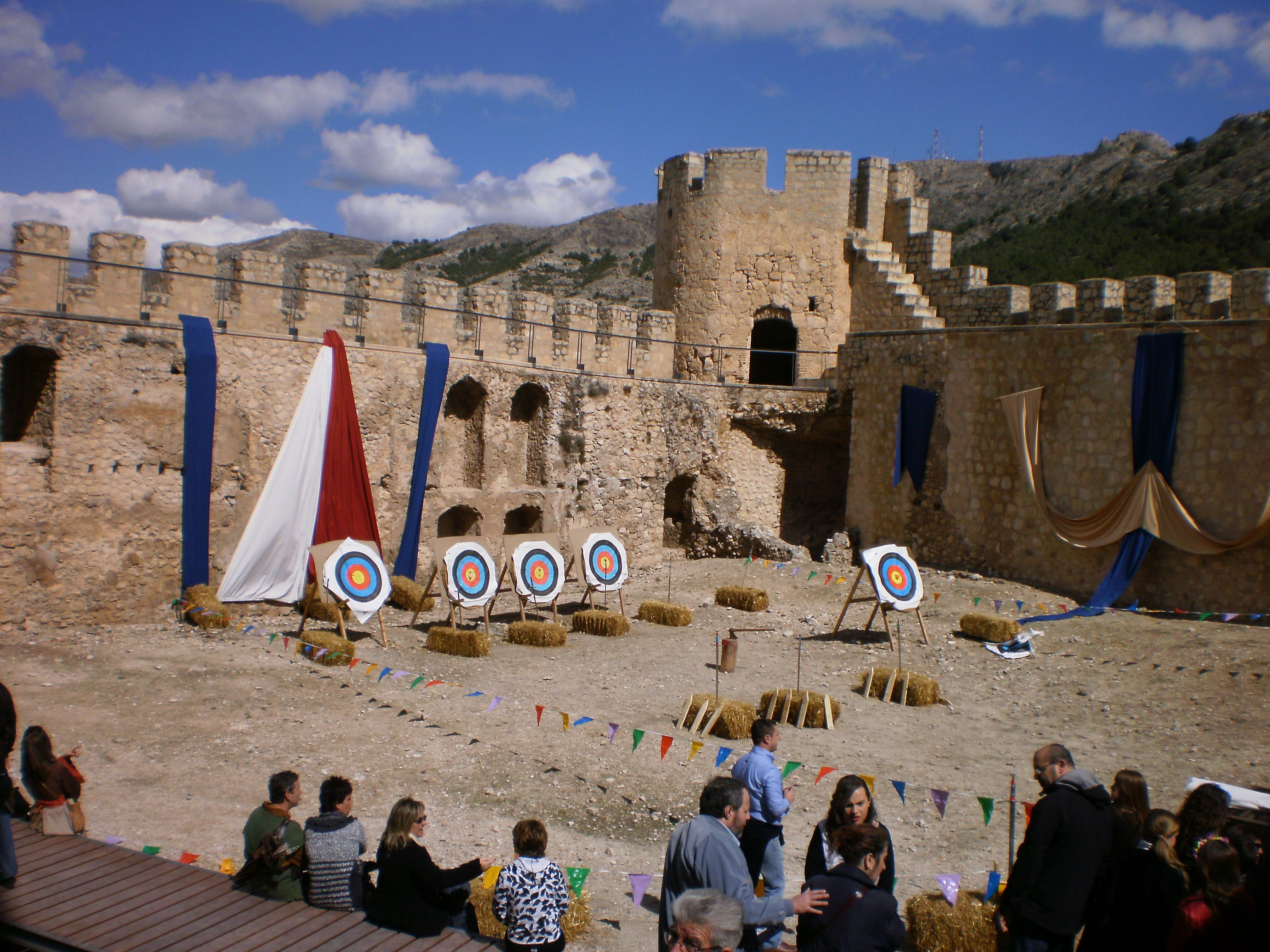 Archery display in the Atalaya Castle, Villena